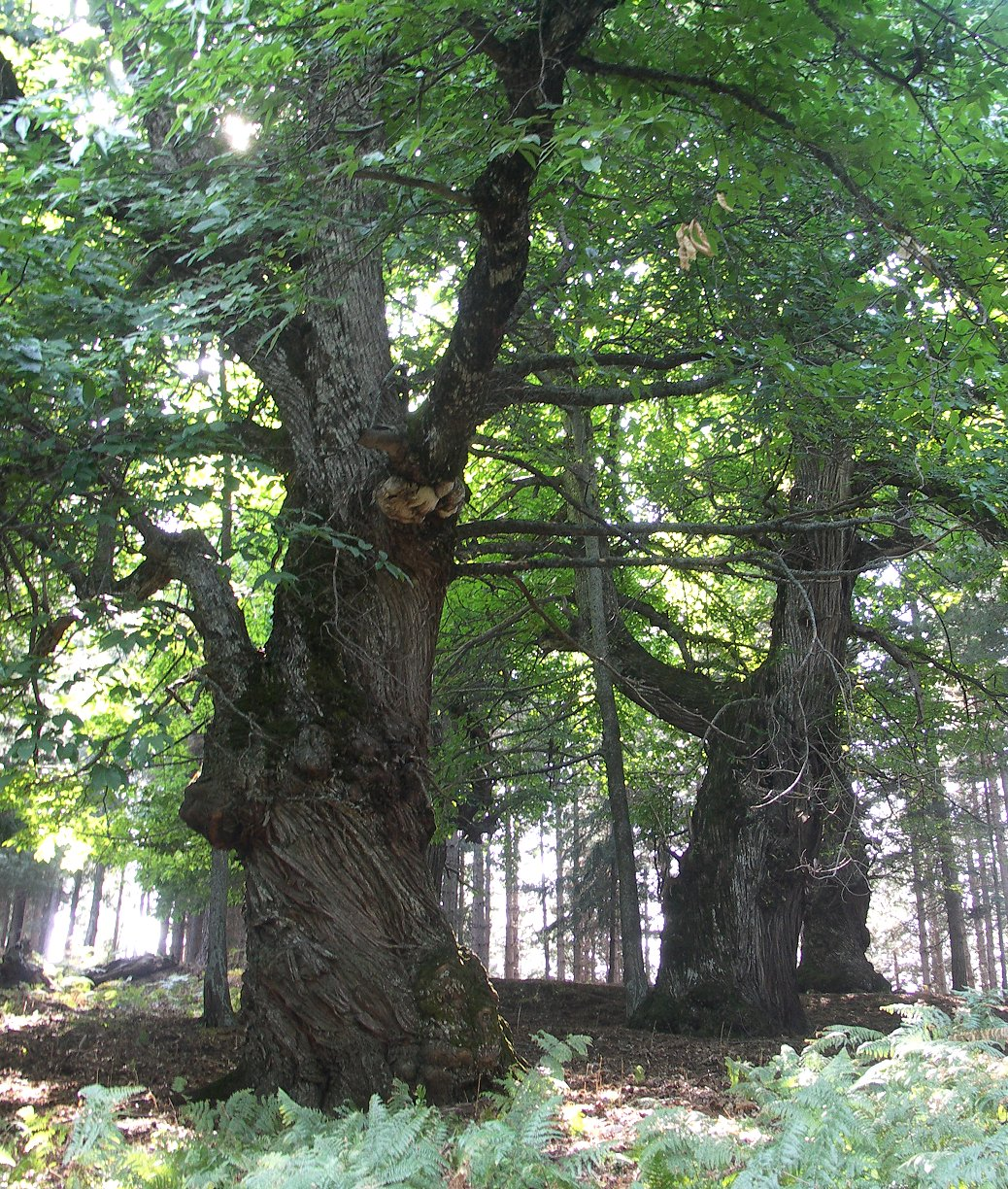 Old Castanea sativa trees in Italy